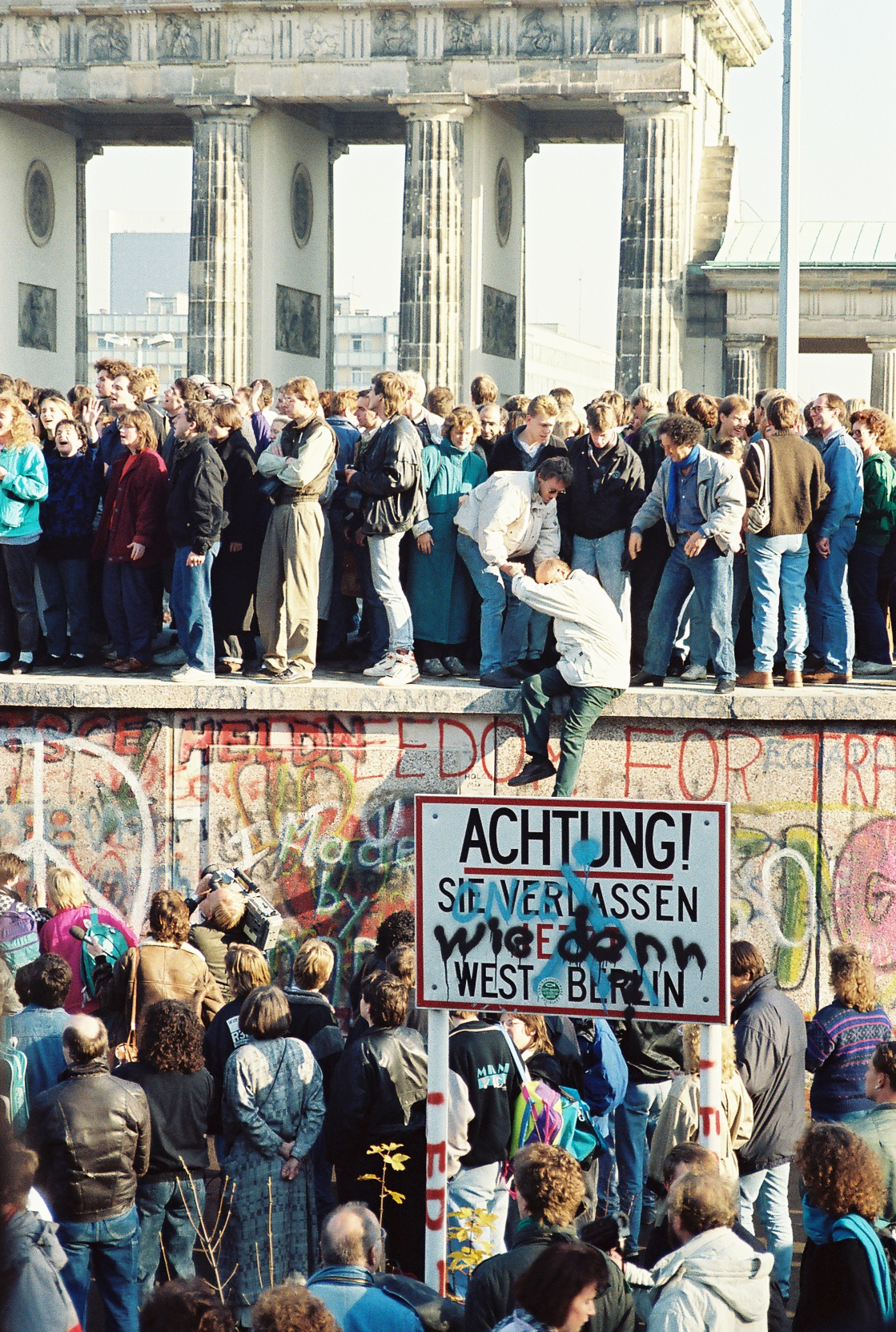 People atop the Berlin Wall near the Brandenburg Gate on 9 November 1989. The text on the sign "Achtung! Sie verlassen jetzt West-Berlin" ("Notice! You are now leaving West Berlin") has been modified with an additional text "Wie denn?" ("How?"). Also in blue is the logo for ONCE, whose cycling team was started in 1989